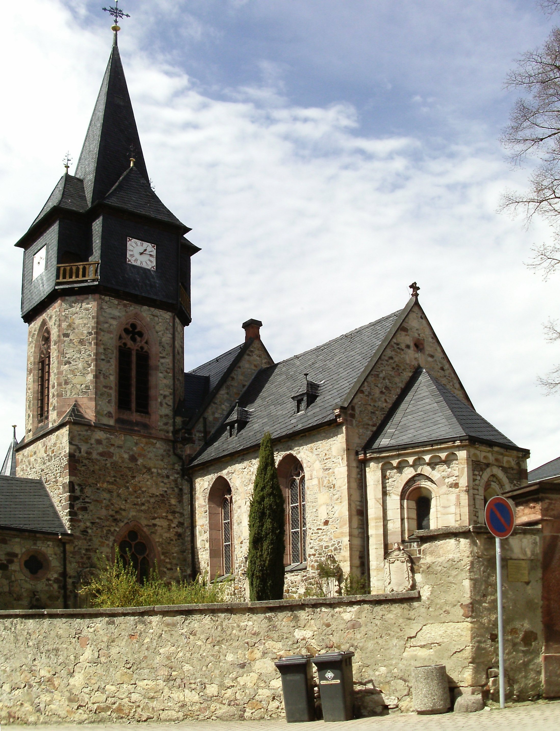 Saint Gangolf's Church in Kohren-Sahlis (Leipzig district, Saxony)